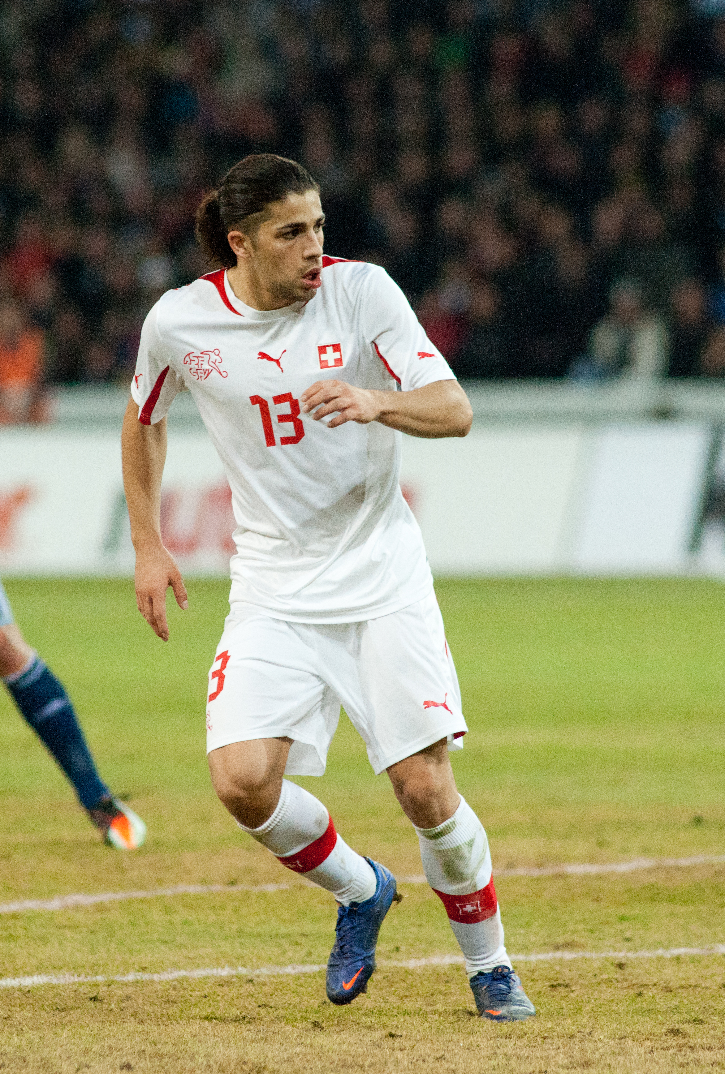 The making of this document was supported by Wikimedia CH. (Submit your project!) For all the files concerned, please see the category Supported by Wikimedia CH. Switzerland vs. Argentina, 29th February 2012